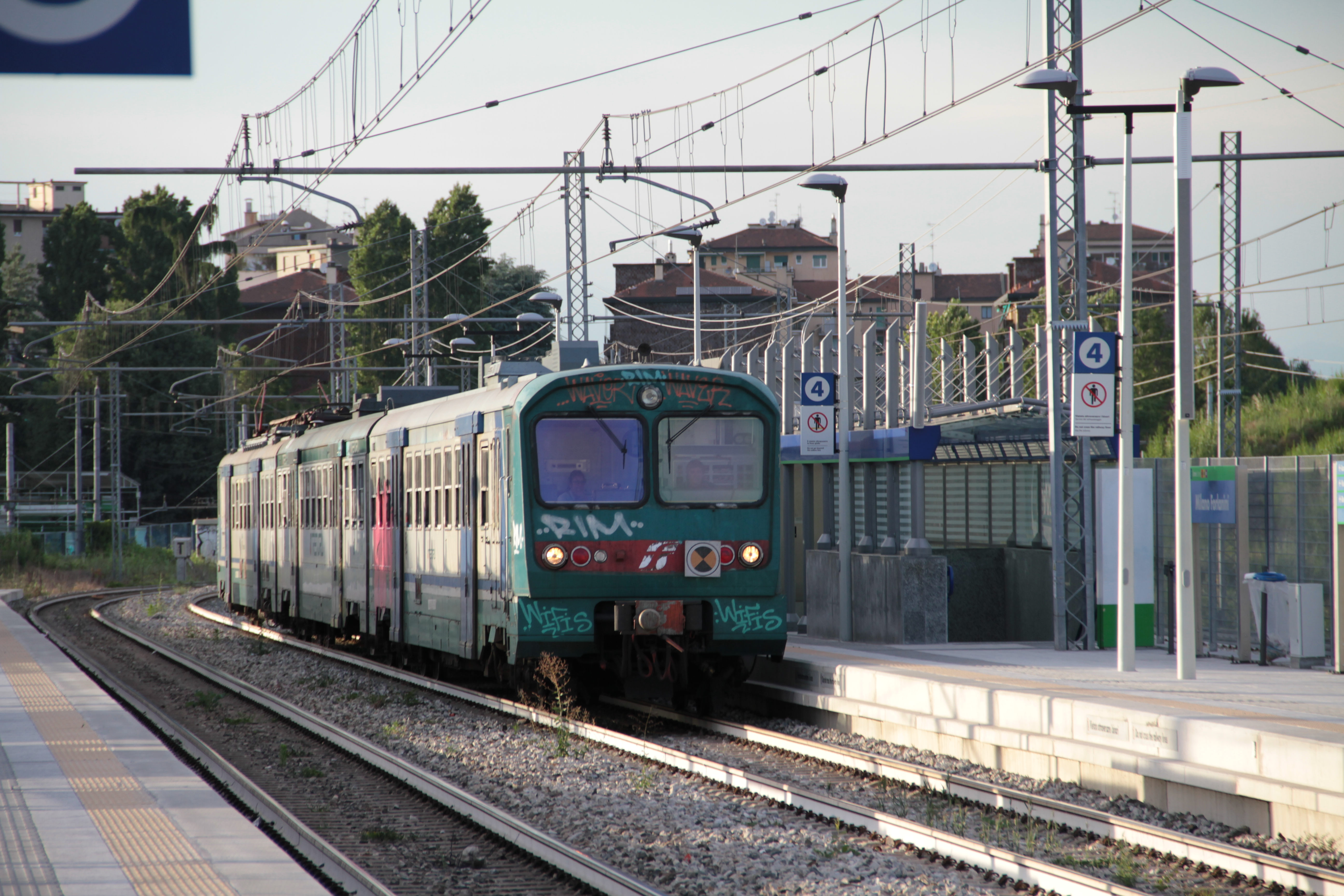 Trenord Train at Milano Forlanini